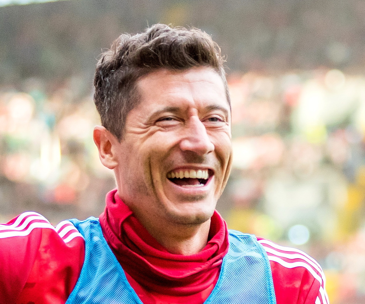 Robert Lewandowski during 1.FC Kaiserslautern vs FC Bayern München at Fritz-Walter-Stadion, Kaiserslautern, Rheinland-Pfalz, Germany on 2019-05-27, Photo: Sven Mandel